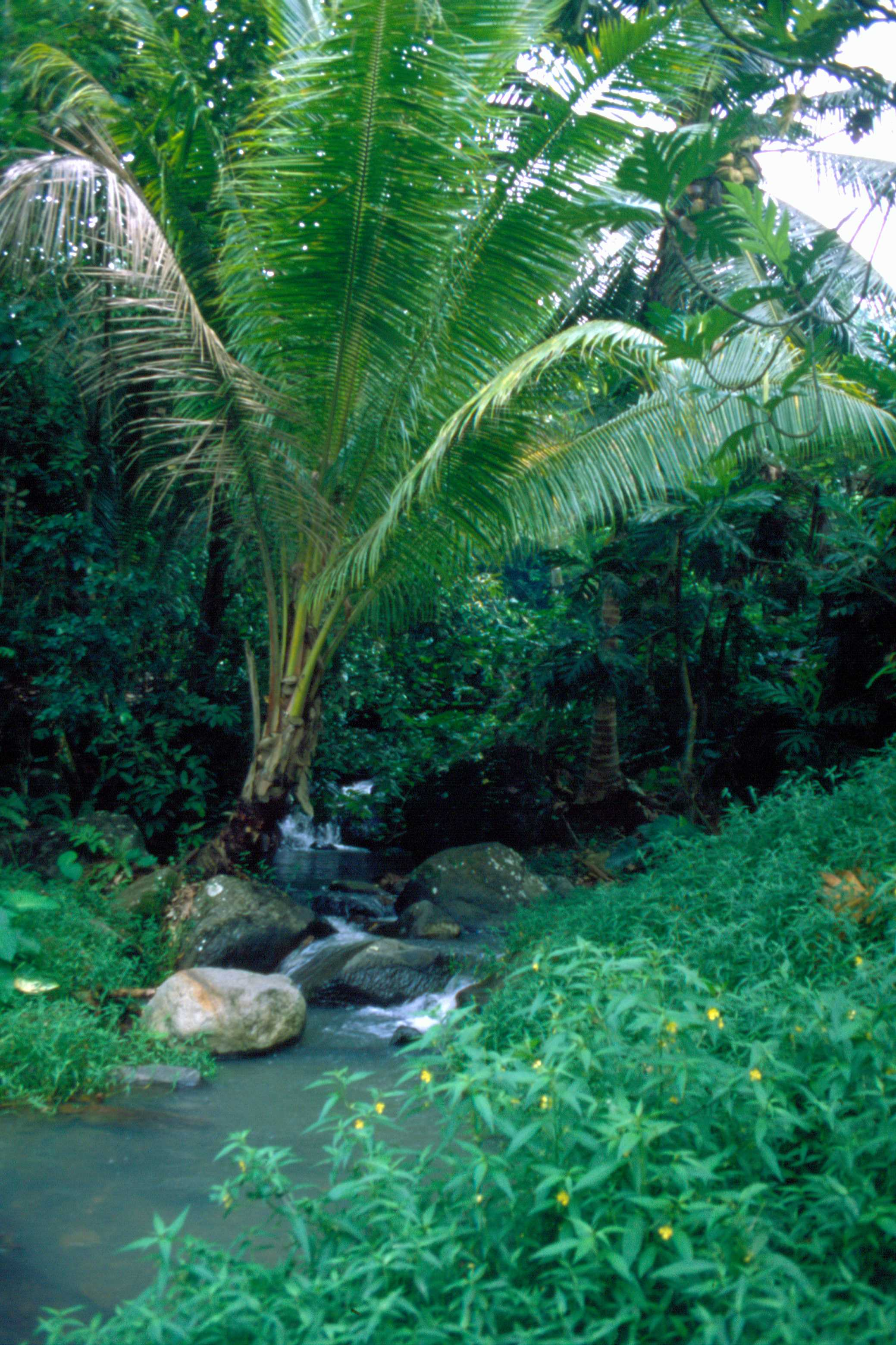 Remains of natural vegetation in a valley on Ua Pou island, Marquesas Islands, French Polynesia